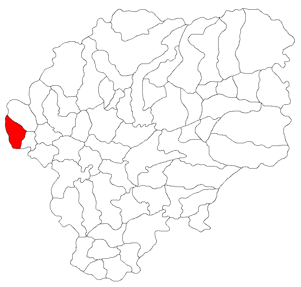 Locator map of the commune of Ciceu-Mihăiești